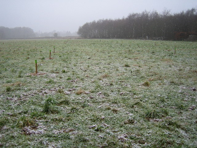 Little Chalfont: Lodge Lane. One of several greenfield sites, mainly in the South East of England, where plots of freehold land are being sold to individuals, "without current planning permission, in areas of high housing need". See link for the website of the company that is selling plots on this particular site The stakes stretching away across the field presumably indicate individual plots.